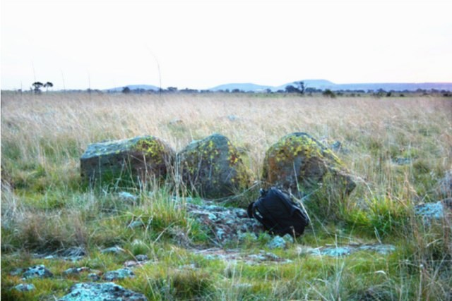 Part of the Wurdi Youang stone arrangement in Victoria, Australia Photo by Ray Norris